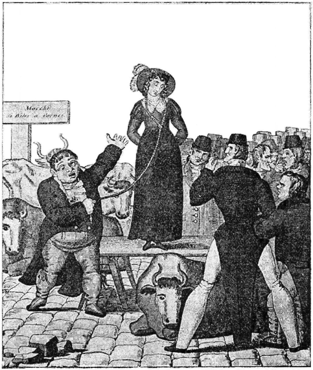 A satirical engraving of the quaint English custom of "wife-selling", which wasn't quite what it sounds like, but was more a ritual among the lower classes — who couldn't possibly obtain an official full parliamentary divorce, allowing remarriage, given the laws of England as they existed before 1857 — to publicly proclaim a dissolution of marriage (though not one that was really recognized by the authorities of Church and State). This is an 1820 English caricature (even though the sign says "Marché de Bêtes à Cornes"). Notice how the artist has arranged things so that the cattle's horns are strategically placed in line-of-sight behind the husband's head.